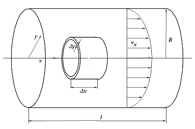 Description of acoustic resistance